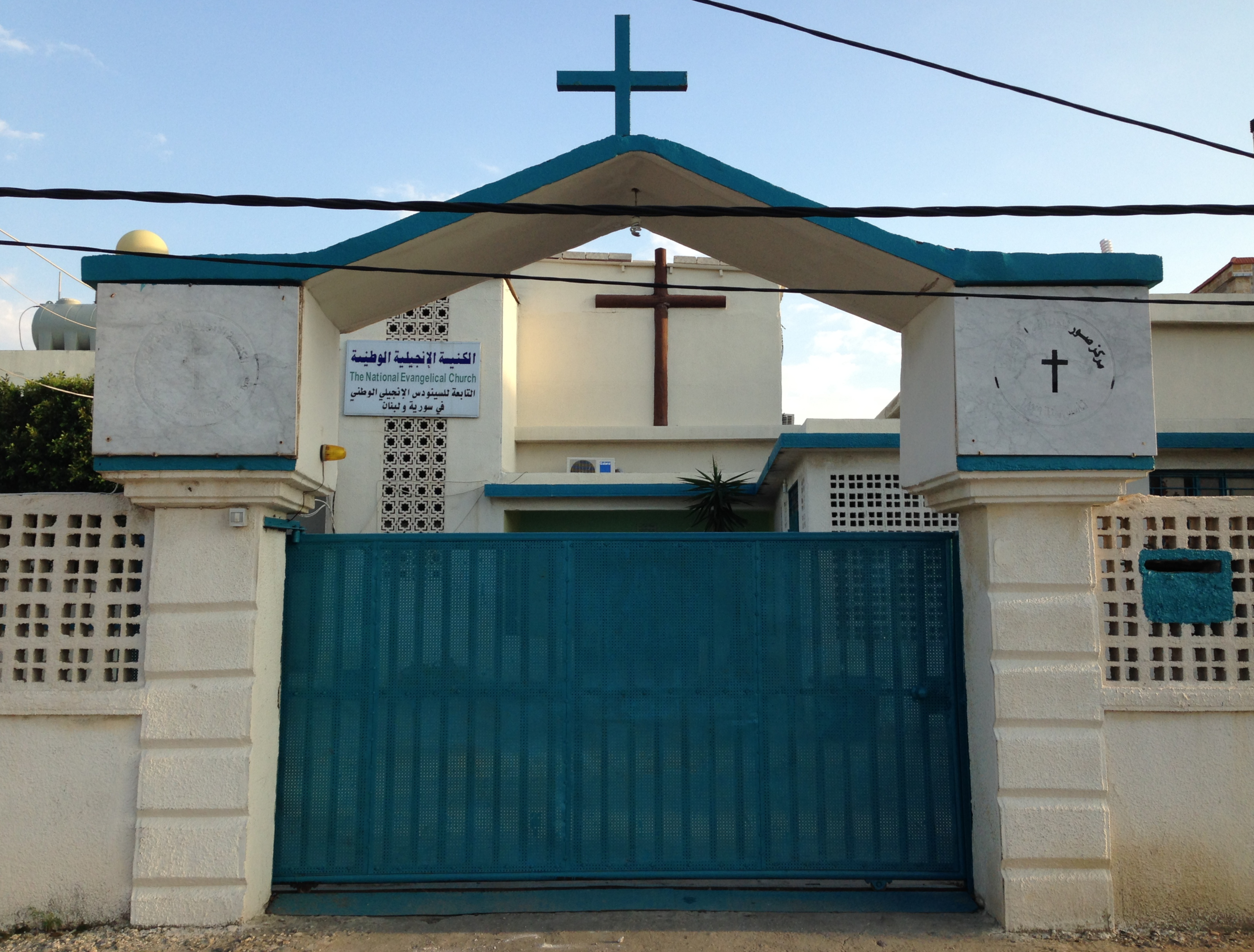 The National Evangelical Church in Tyre (Sour/Tyr/Tyros), Southern Lebanon.